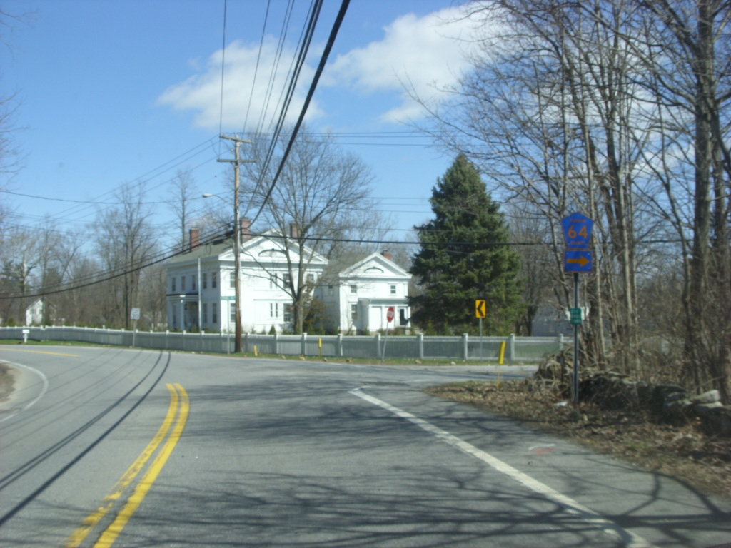 New York State Route 311 at its intersection with CR 64.